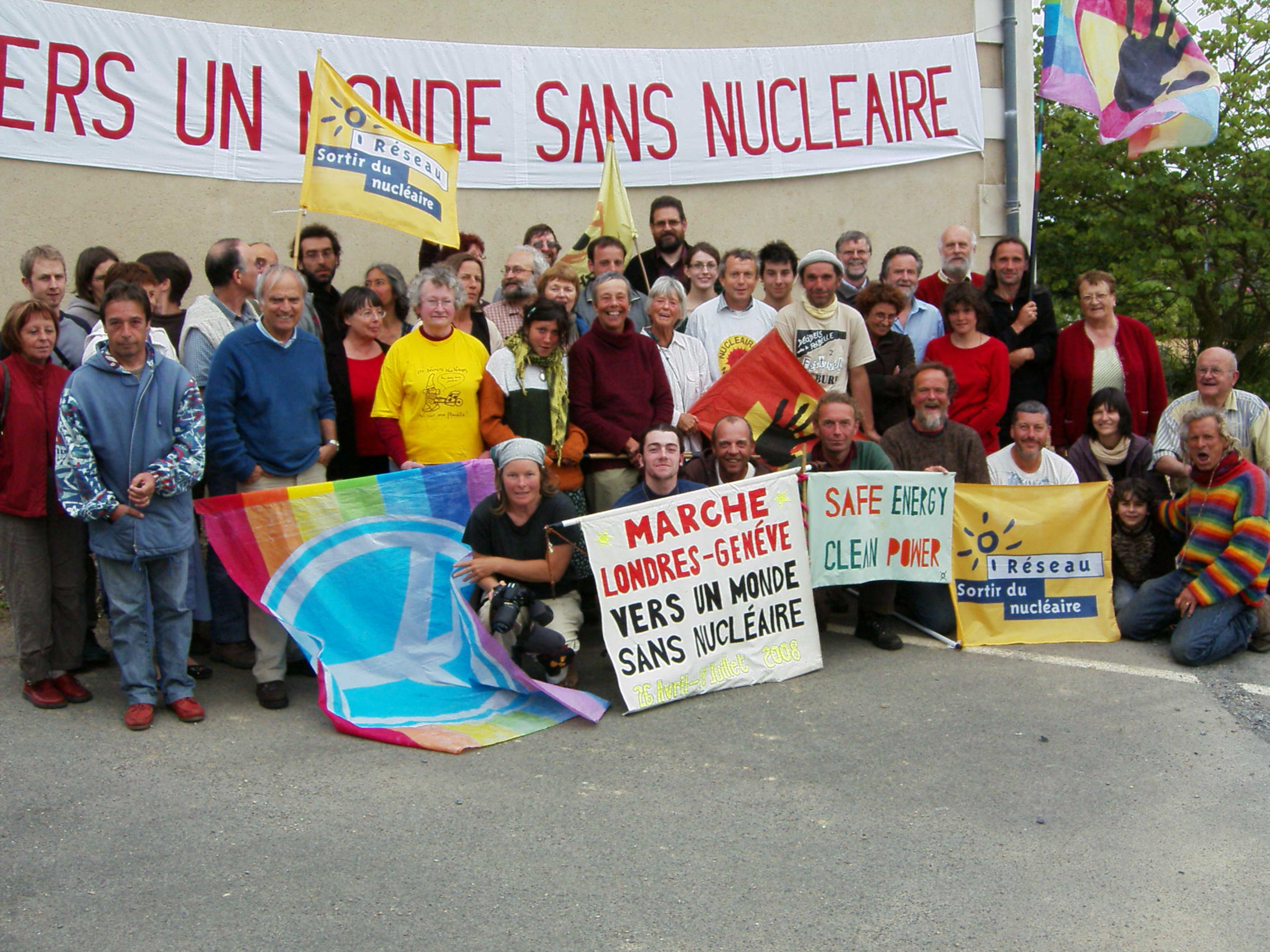 Antinuclear Walk London-Geneva 2008.